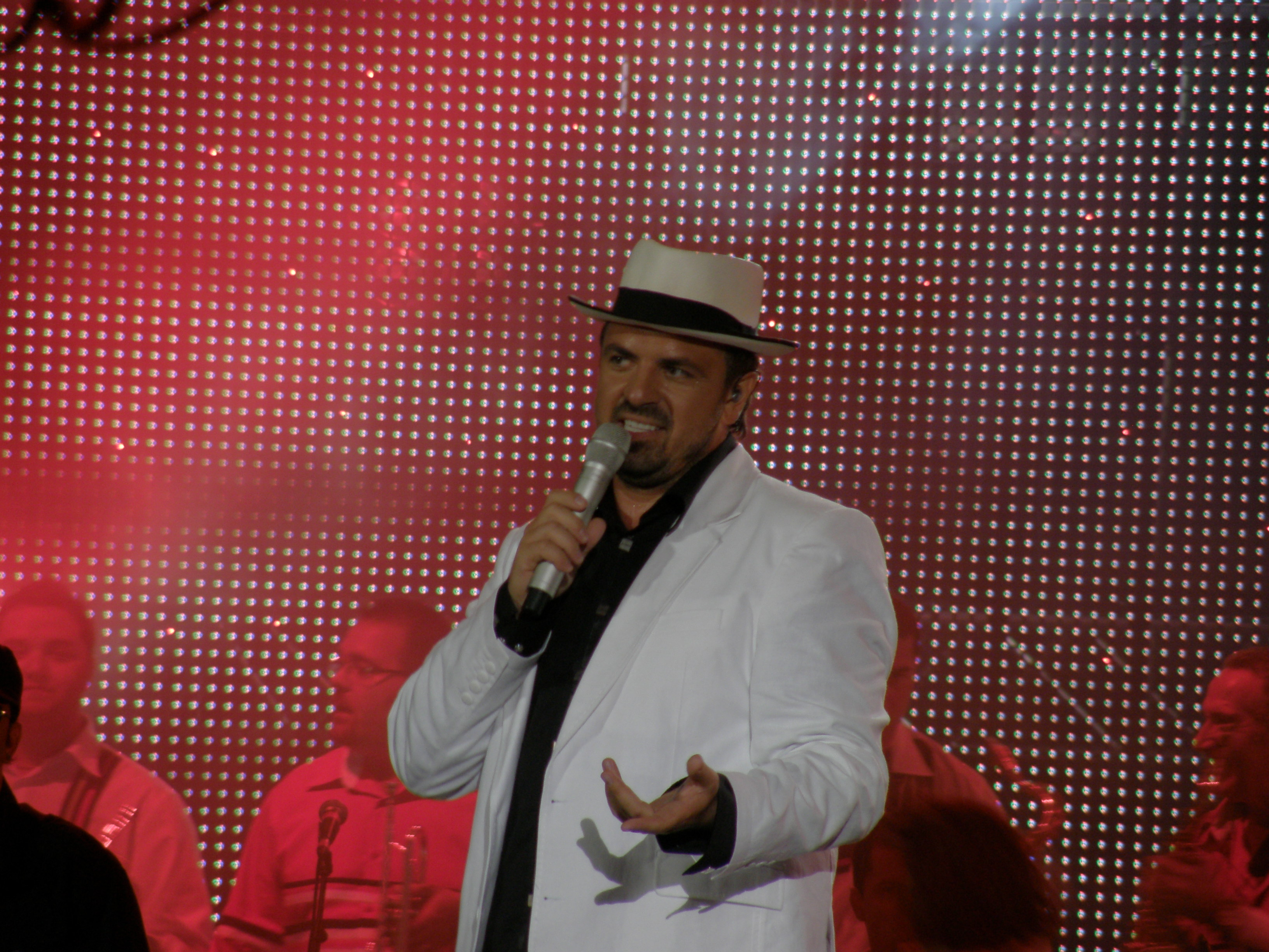 Horia Brenciu giving a recital at the Golden Stag festival - Brașov 2008.